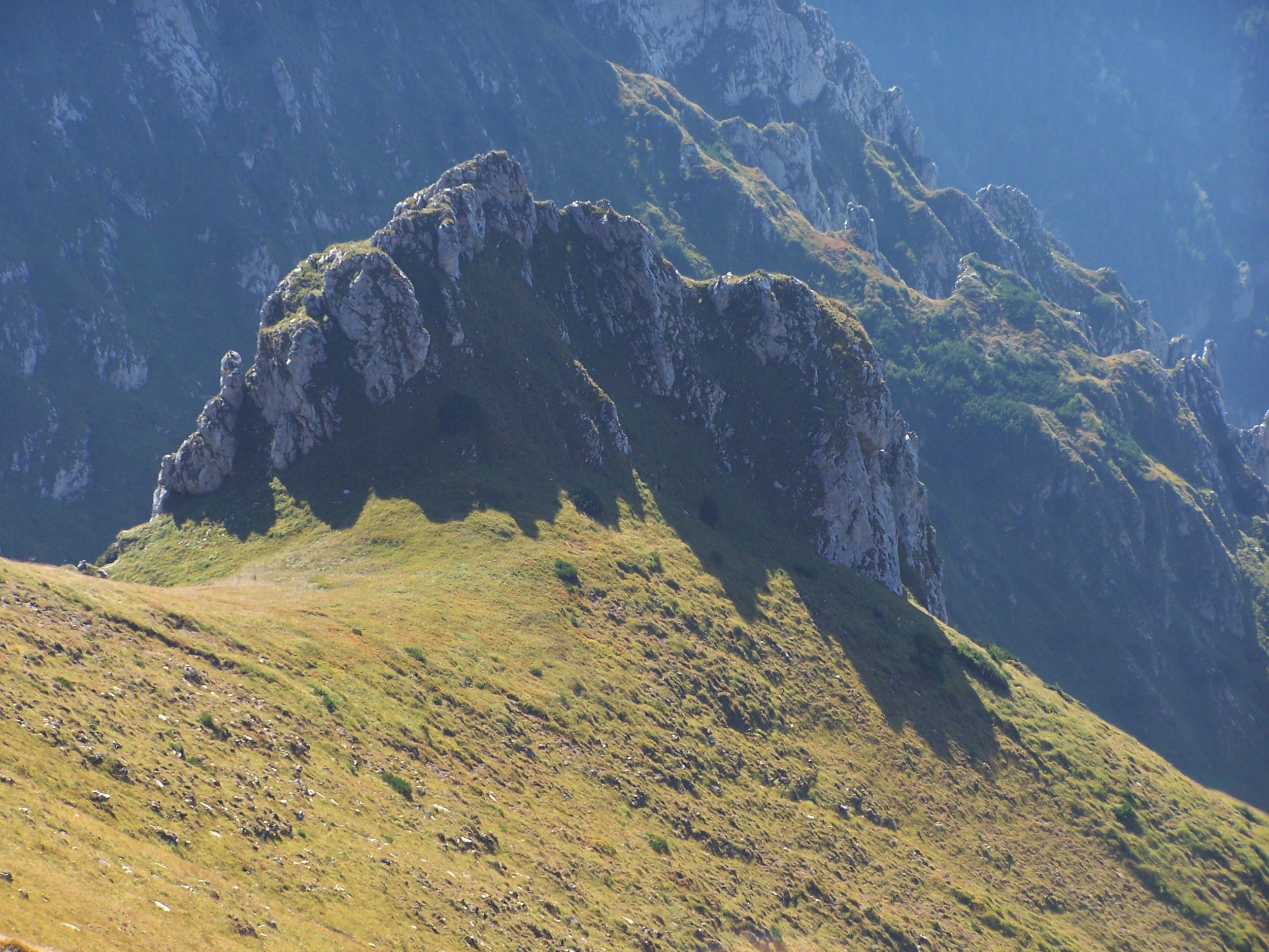 Lodowa Baszta (West Tatra Mountains)